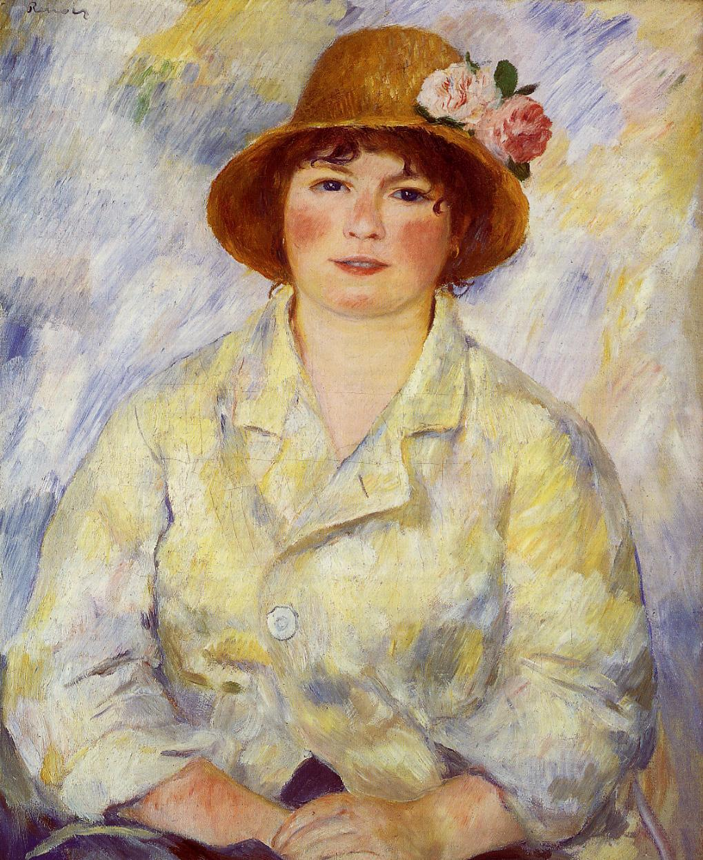 A portrait of Aline Charigot, Renoir's wife, probably painted while the family was in the countryside of eastern France. Renoir kept the portrait until his death.